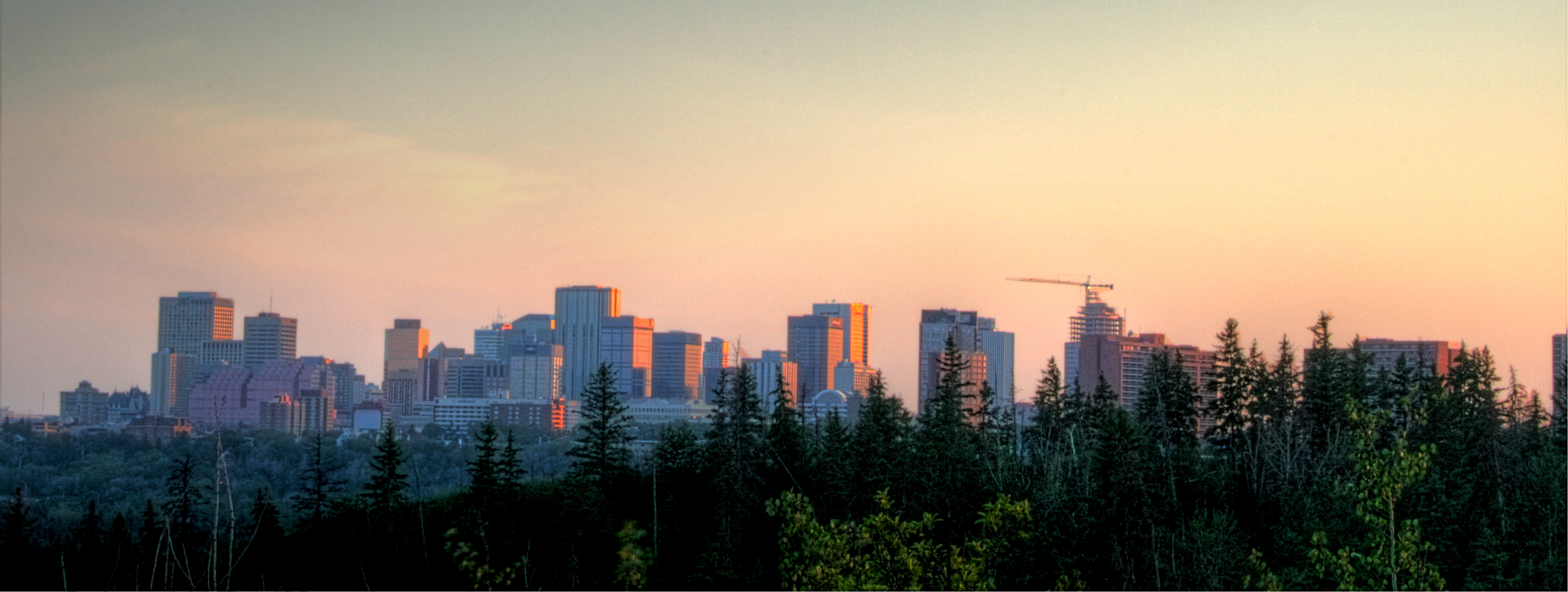 The skyline viewed from the Highlands neighborhood in Edmonton, Alberta, Canada.